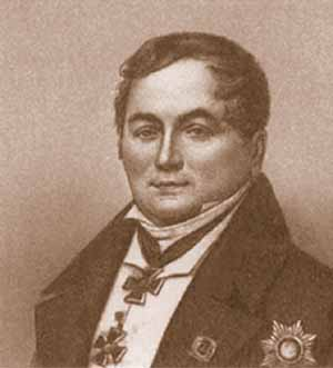 Balugjanskij Mikhail (1769-1847), Russian politician